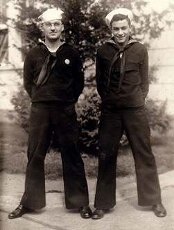 Frank Rodowicz & Hugh Montenegro, 1944